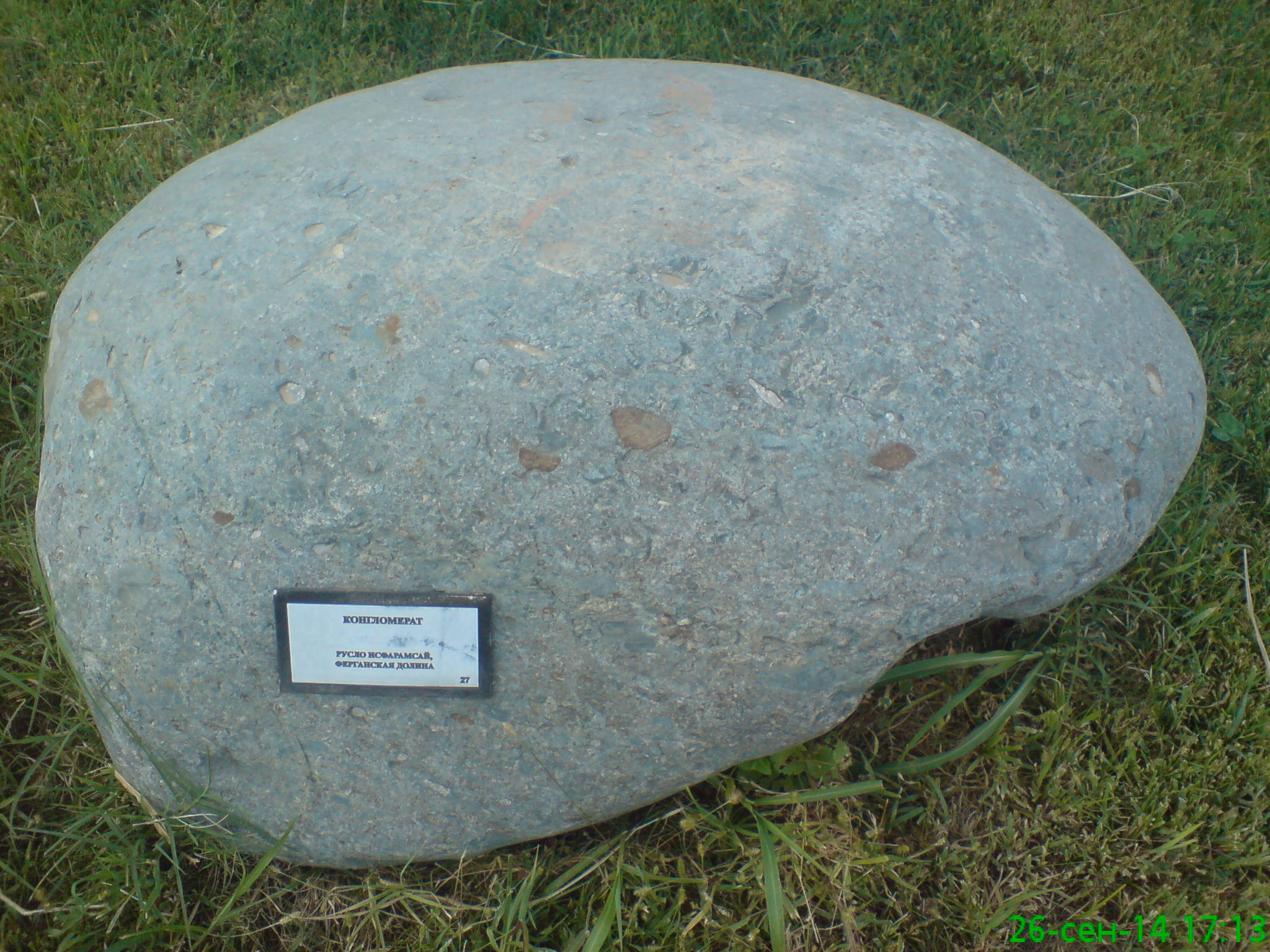 Conglomerate from the riverbed of Isfayramsoy river. Museum piece of Geological park of Museum of Geology (Tashkent city)